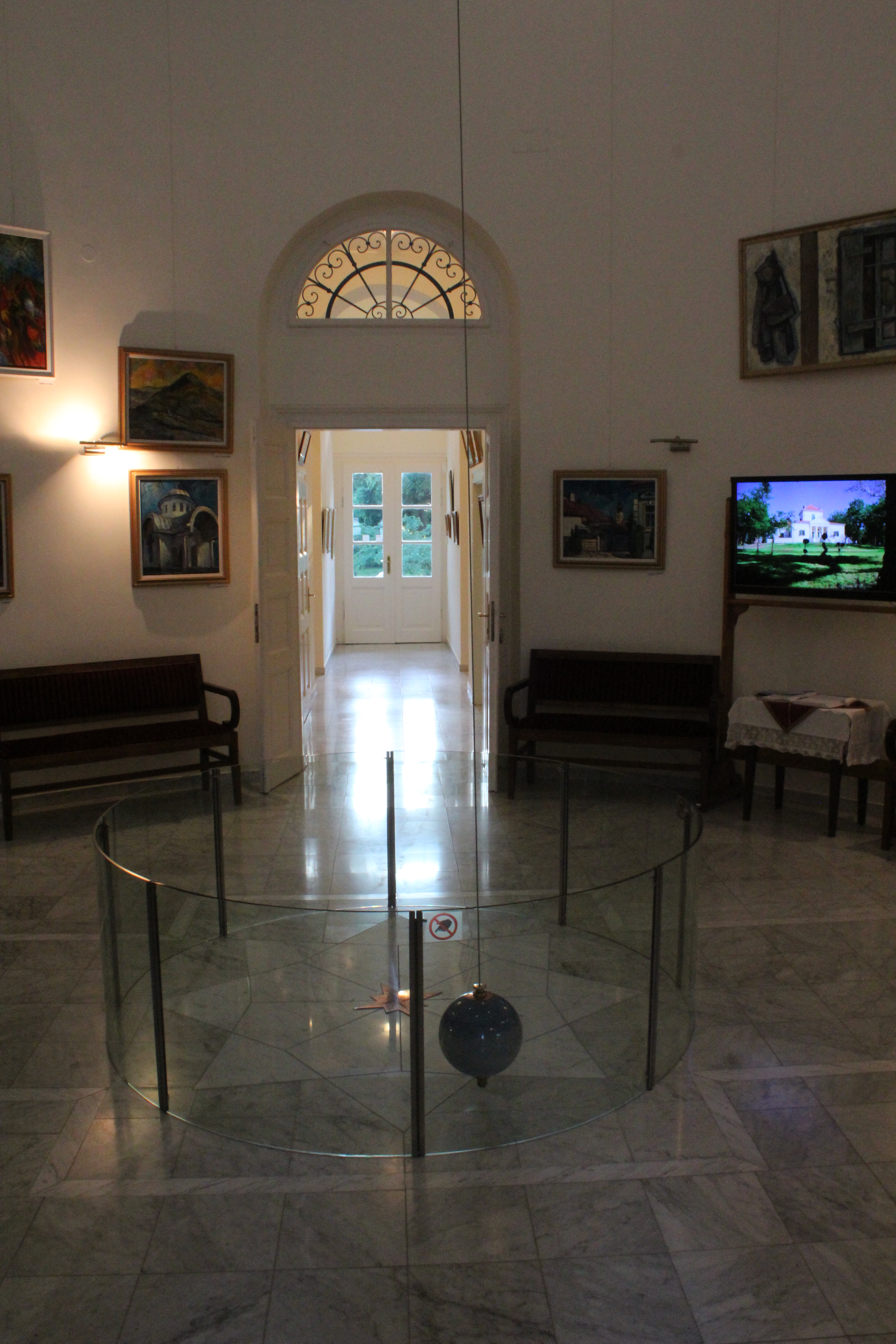 Foucault pendulum in Vásárhelyi-Bréda mansion (Lőkösháza, Hungary)